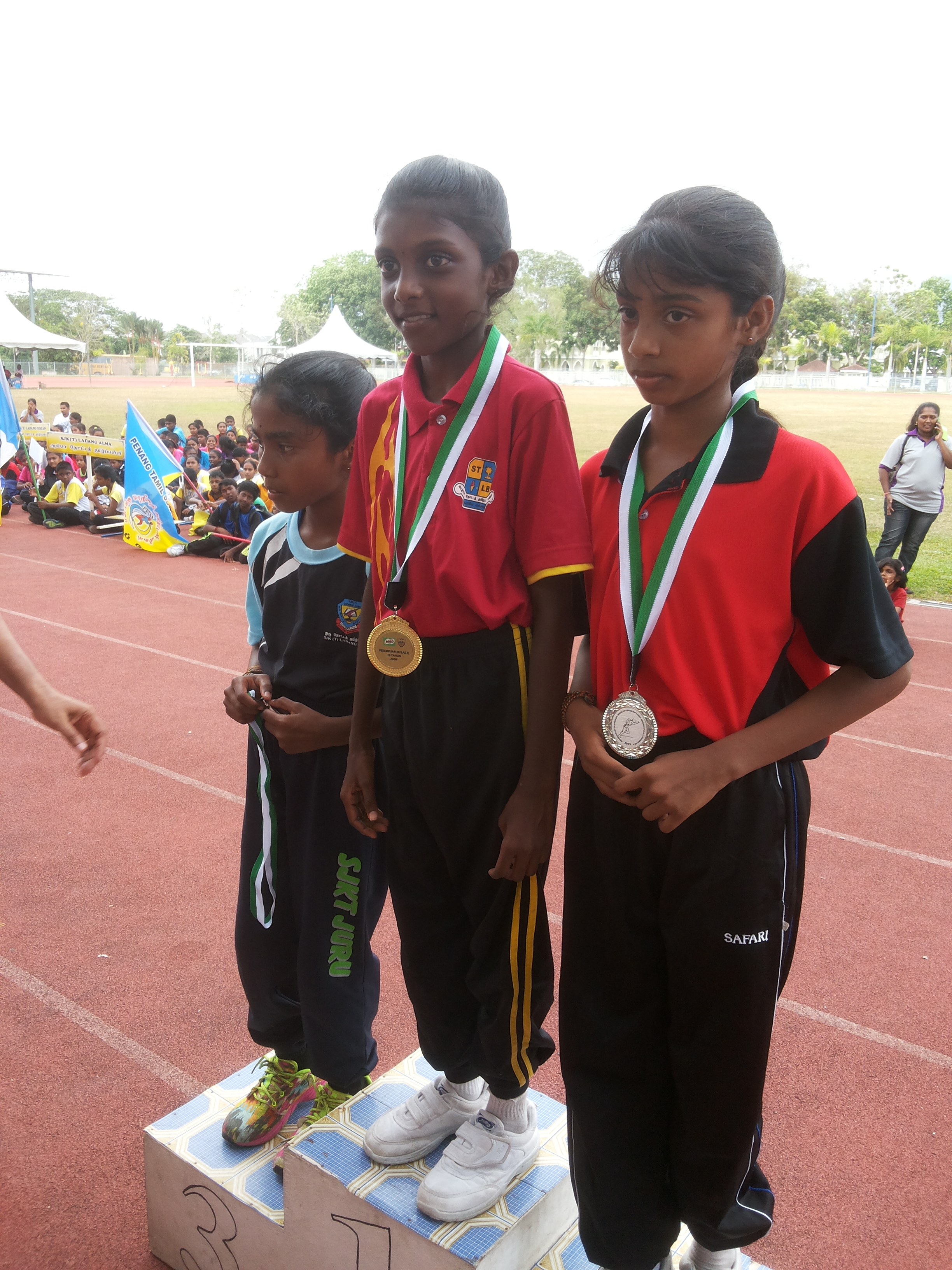 100மீட்டர் 200மீட்டர்